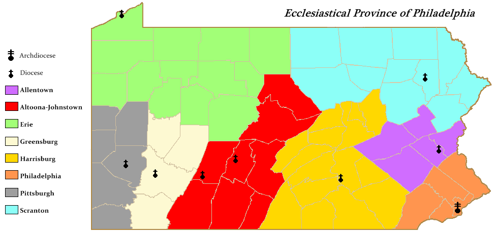 Diocesan map of the (Catholic) Ecclesiastical Province of Philadelphia.